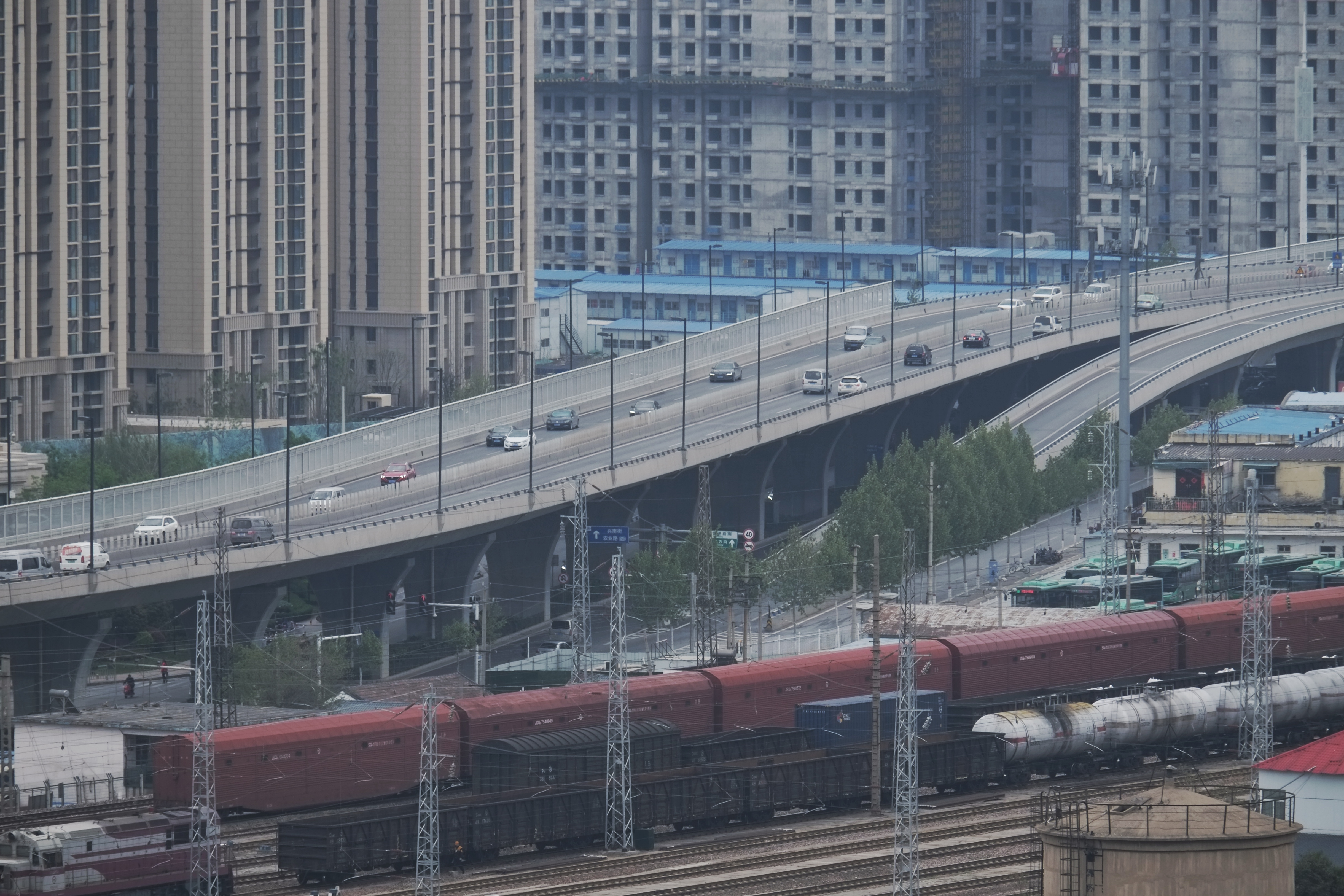 Freight trains passing Zhengzhou North and Jingguang Expressway in Zhengzhou, China